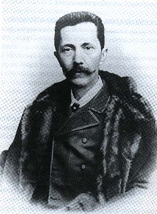 Italian physician Giulio Bizzozero